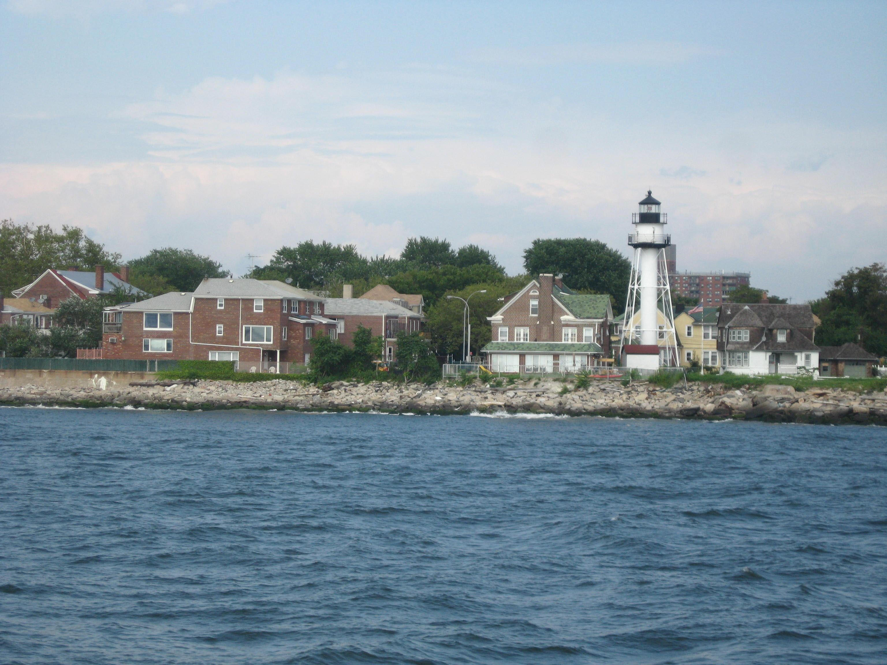 Looking northeast at Coney Island Light from a ferry on a sunny afternoon